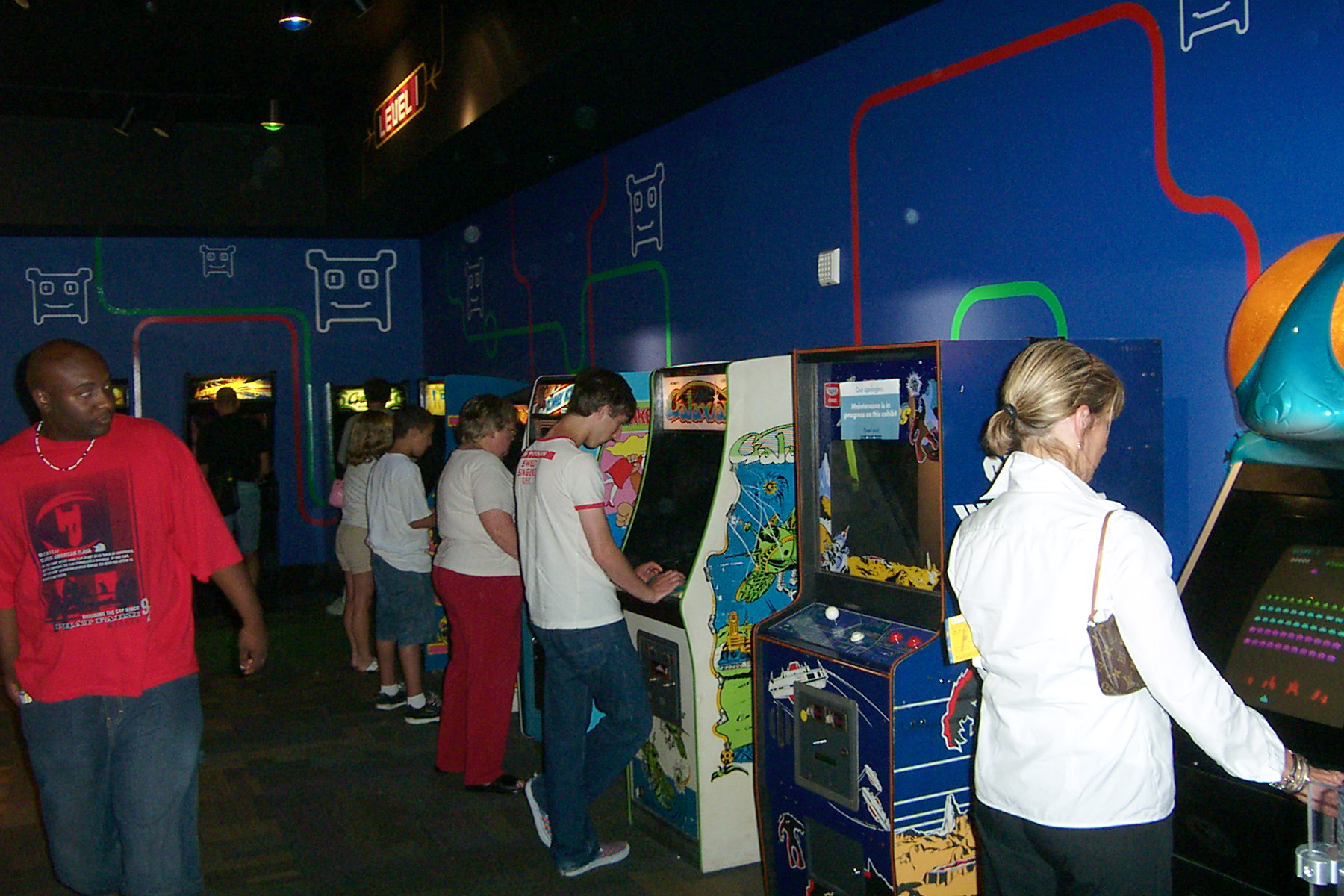 All that was missing was Fry's two liter bottle of Shasta and all rush mix tape.This is a museum, right?